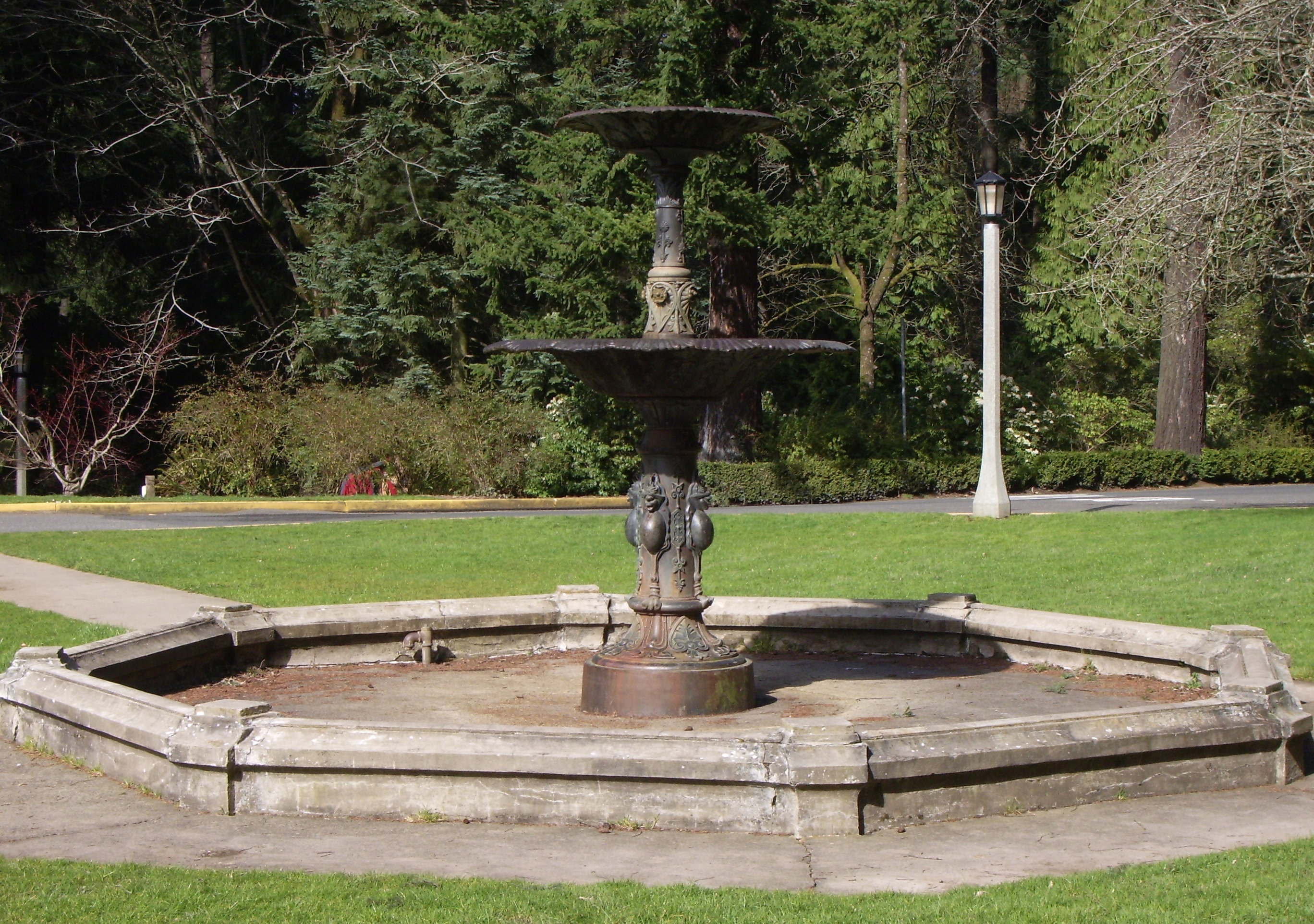 "Chiming Fountain" in Washington Park, Portland, viewed from south. The fountain is drained in winter for freeze protection.